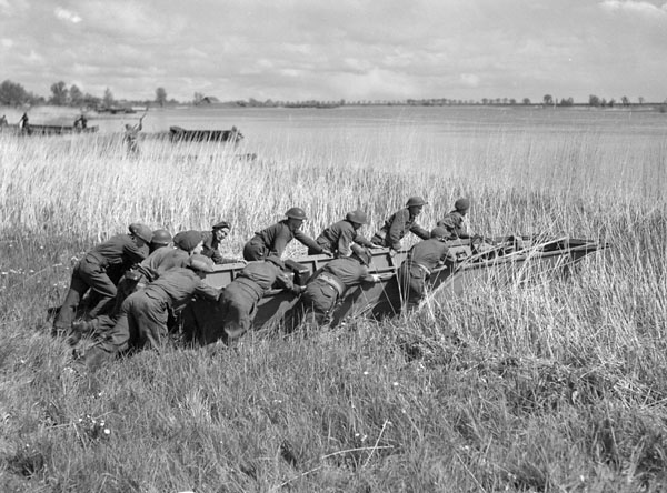 Personnel of the Royal Canadian Engineers (R.C.E.), 3rd Canadian Infantry Division, pushing a storm boat into the Ems River south of Emden, Germany, 28 April 1945.